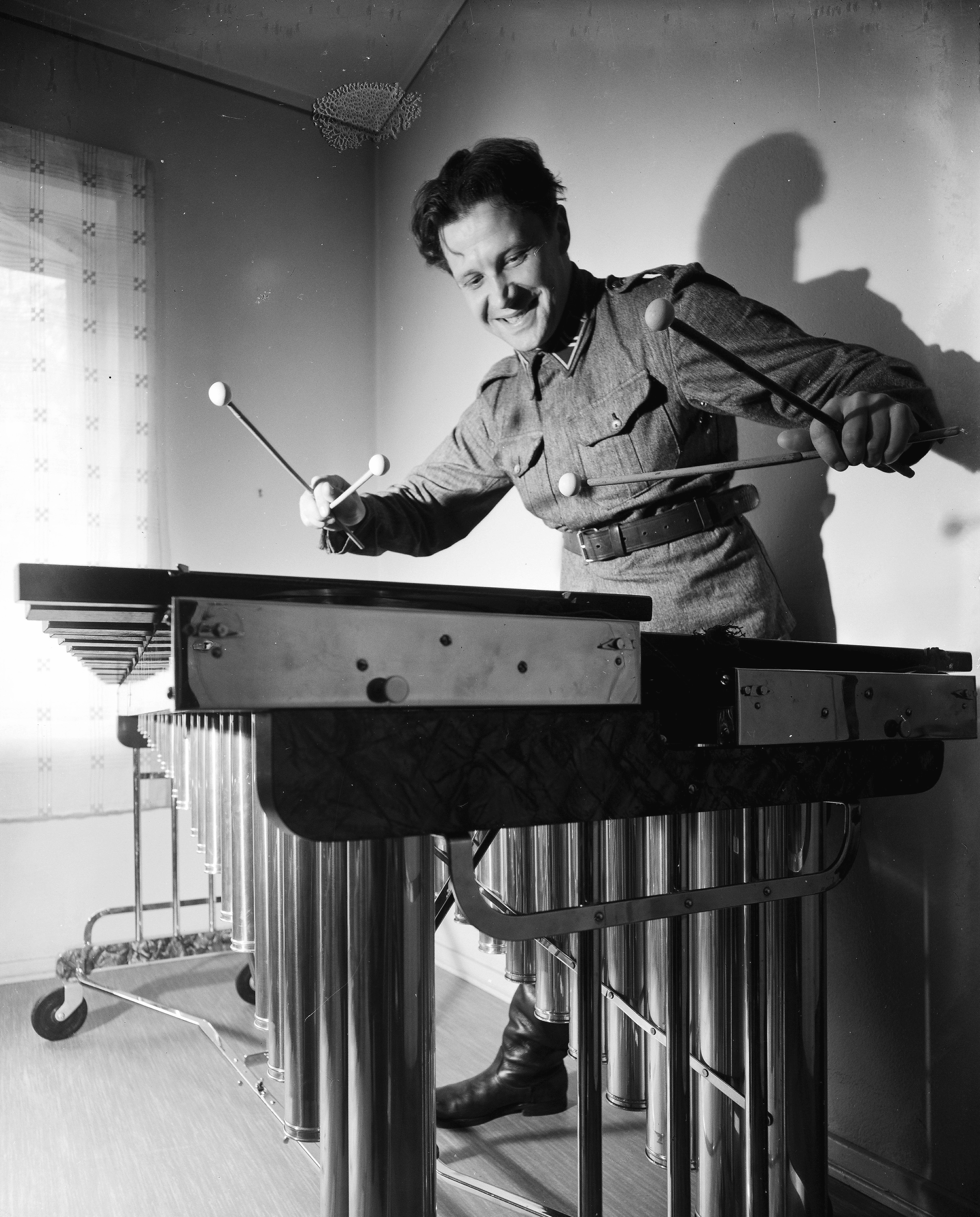 Photograph of the Finnish musician Eino Katajavuori (1905–1984) playing the xylophone.